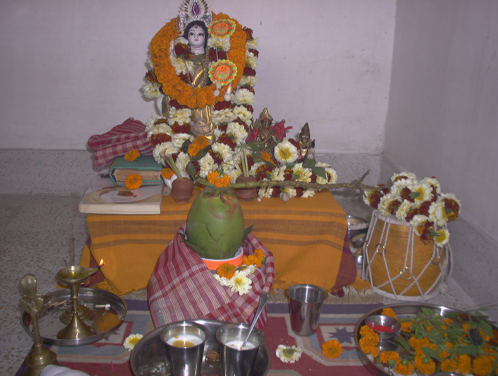 Altar for Saraswati Puja, the worship of the Goddess of wisdom, arts and literature. Books and drum are put for Her blessings.